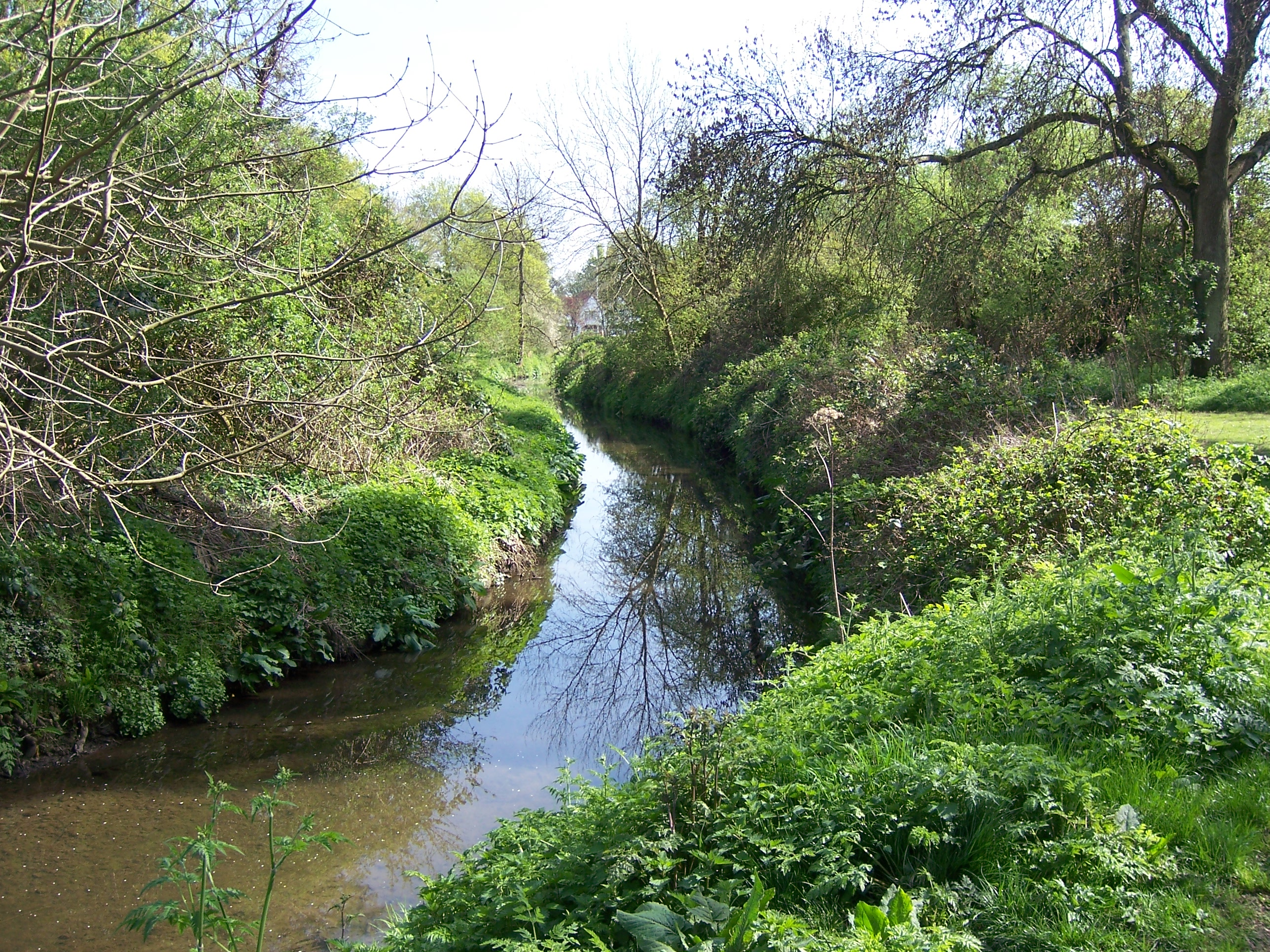 The River Pinn flowing through Ickenham